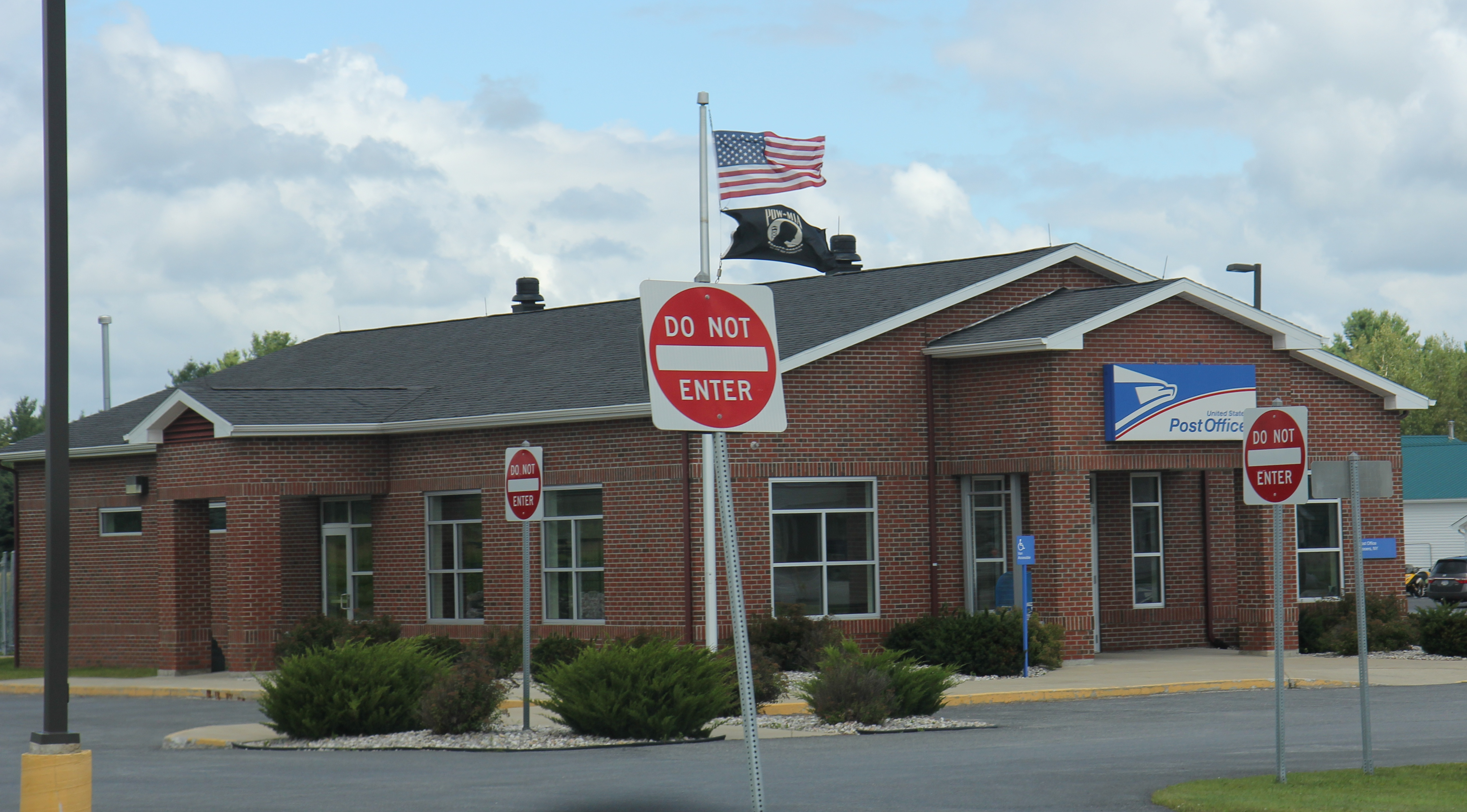 The post office for Mooers, New York, on US11.